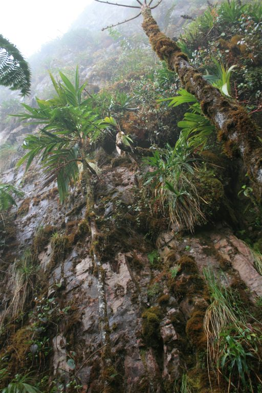 Mount Roraima Cliffs, Venezuela